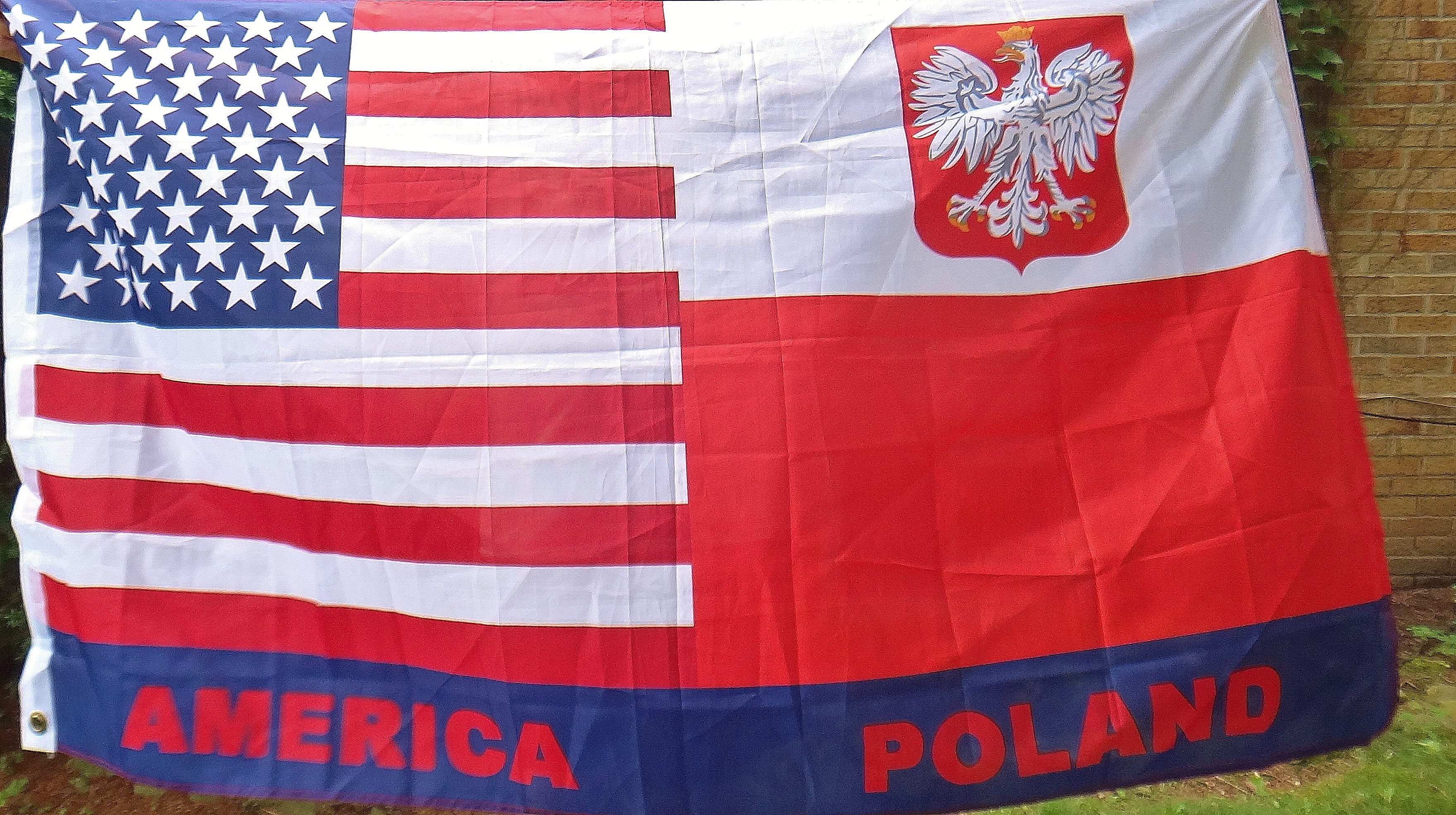 Me holding my Polish American novelty flag.